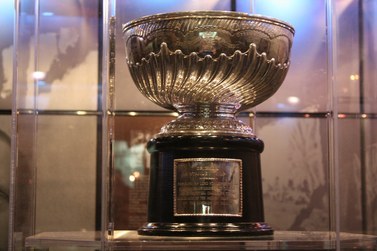 Hockey Hall of Fame, Toronto, ON